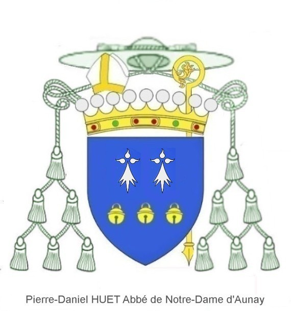 Blason de Pierre Daniel Huet Abbé de l'Abbaye d'Aunay-sur-Odon